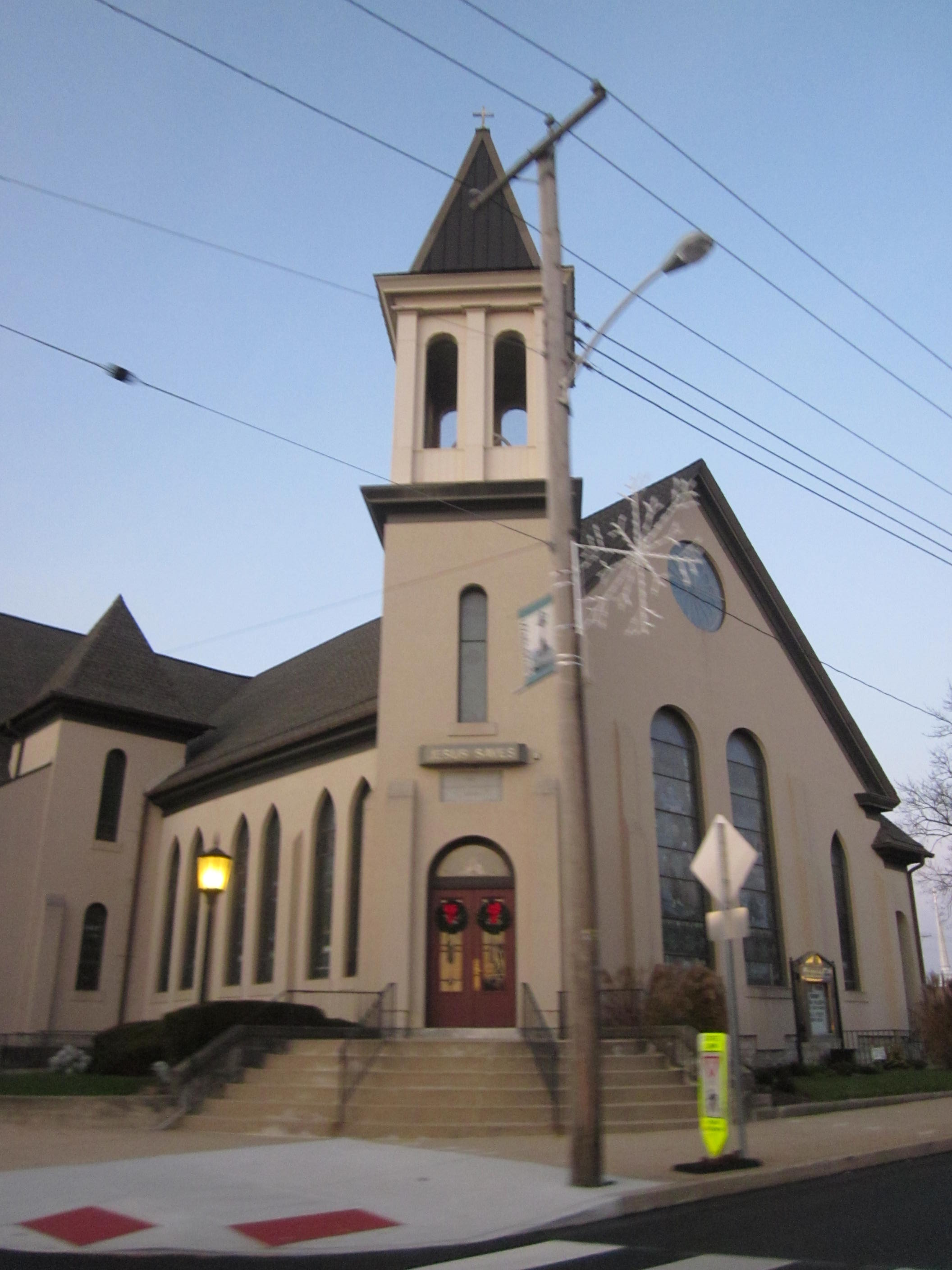 Palmyra First Evangelical Church 55 W Main St, Palmyra, Pennsylvania 17078